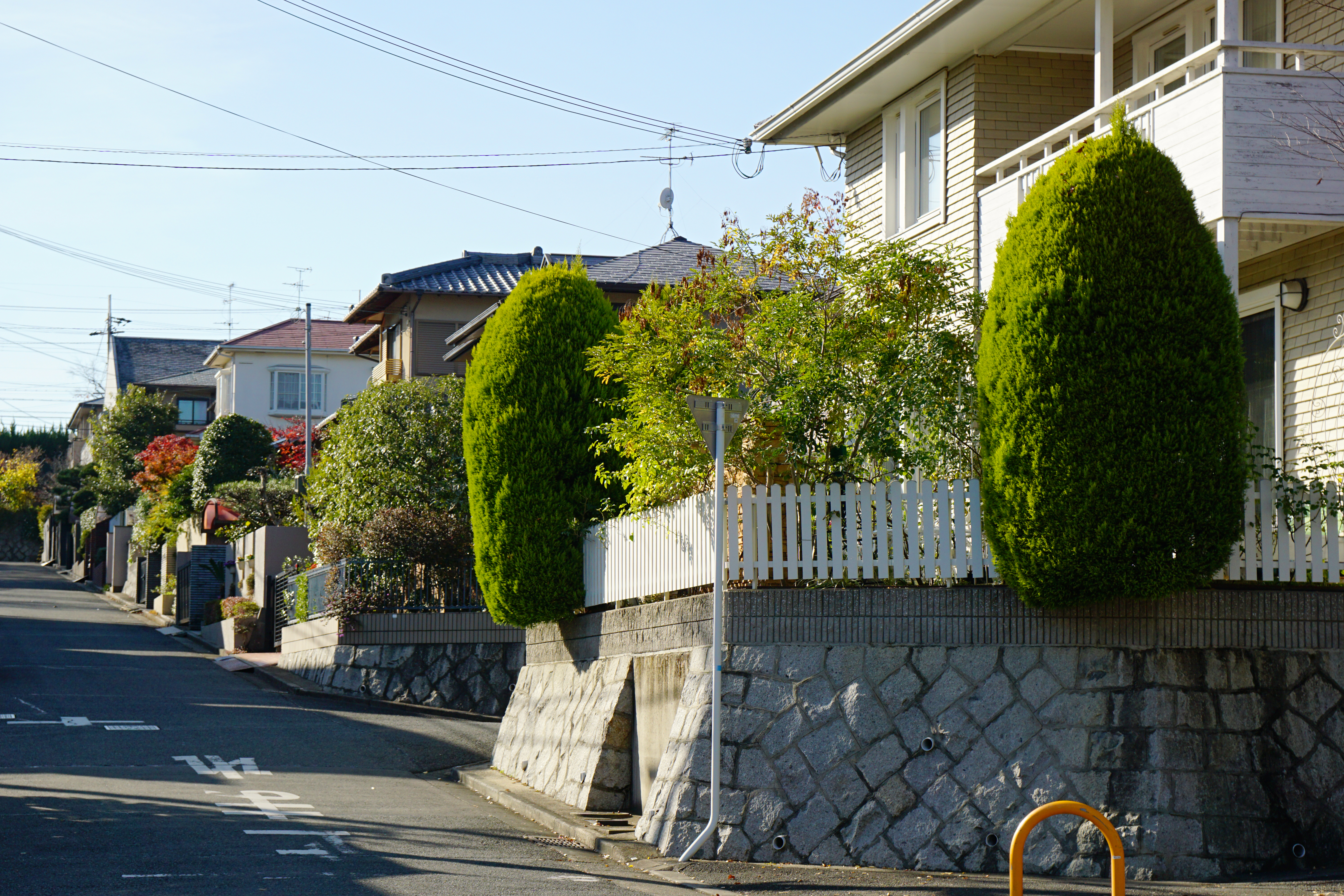 At Nanpeidai 5-chome, Takatsuki, Osaka prefecture, Japan.